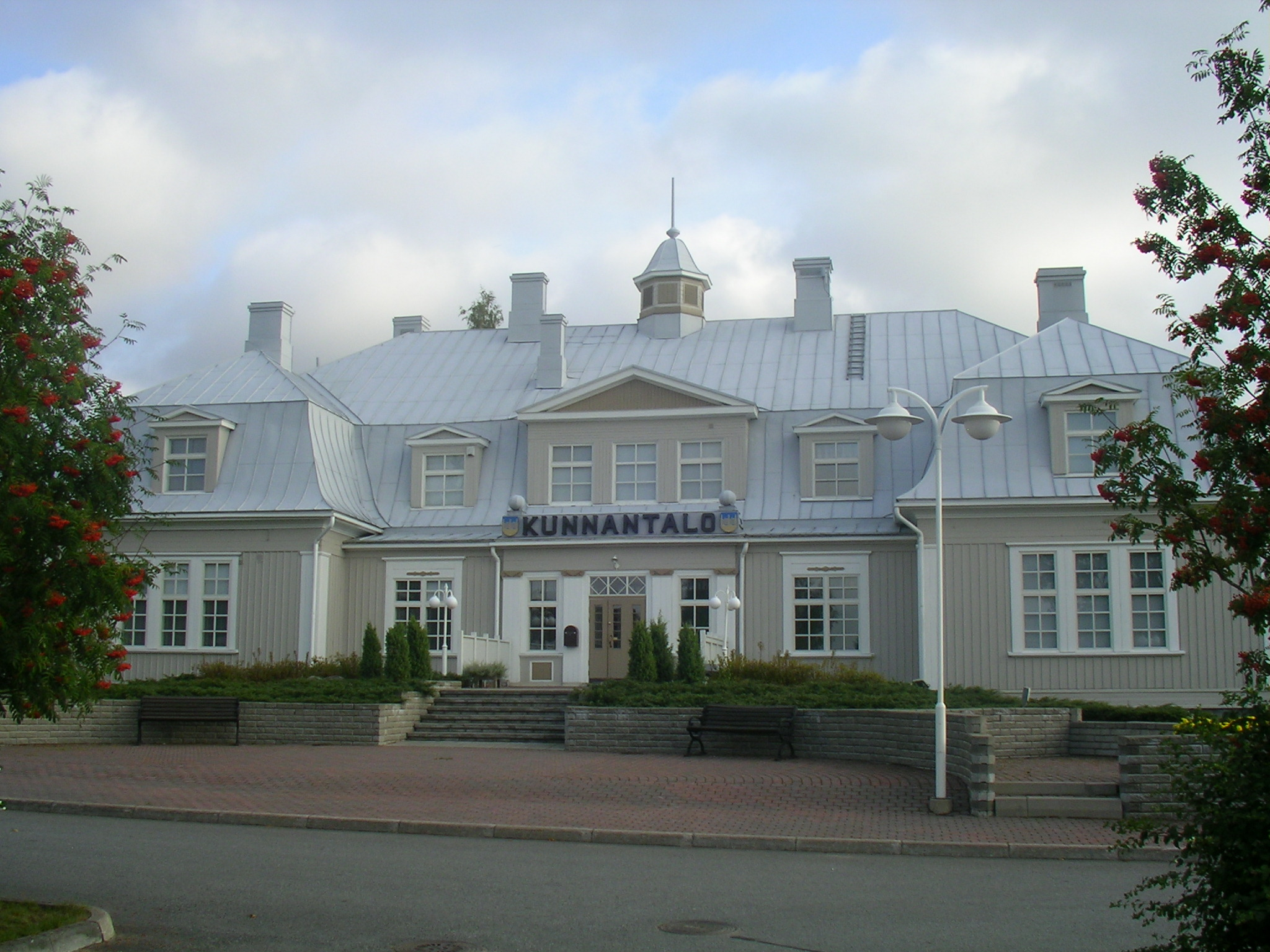 The municipal hall in Punkalaidun, Finland.